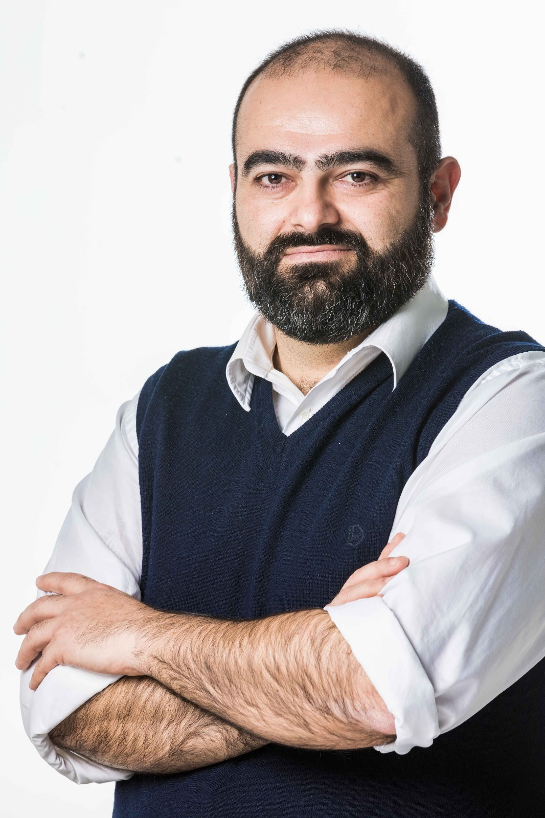 Italian LGBTI activist